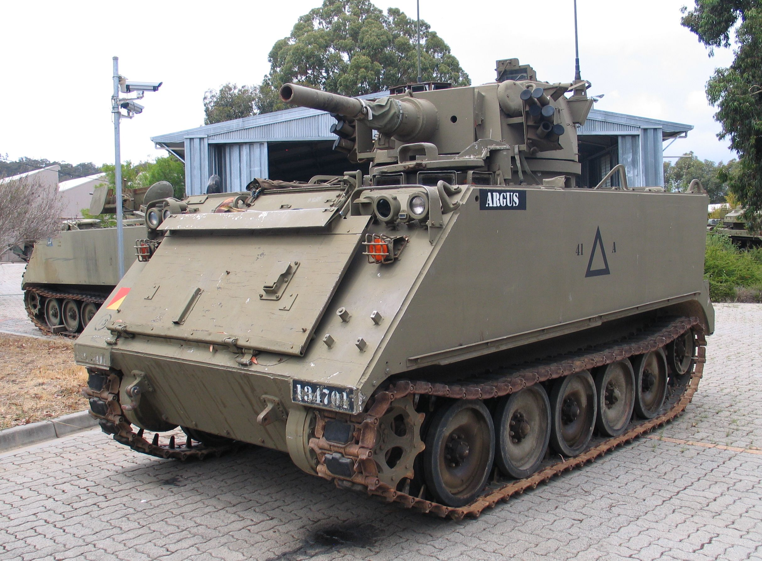 M113 Fire Support Vehicle in Royal Australian Armoured Corps Tank Museum, Puckapunyal, Australia.